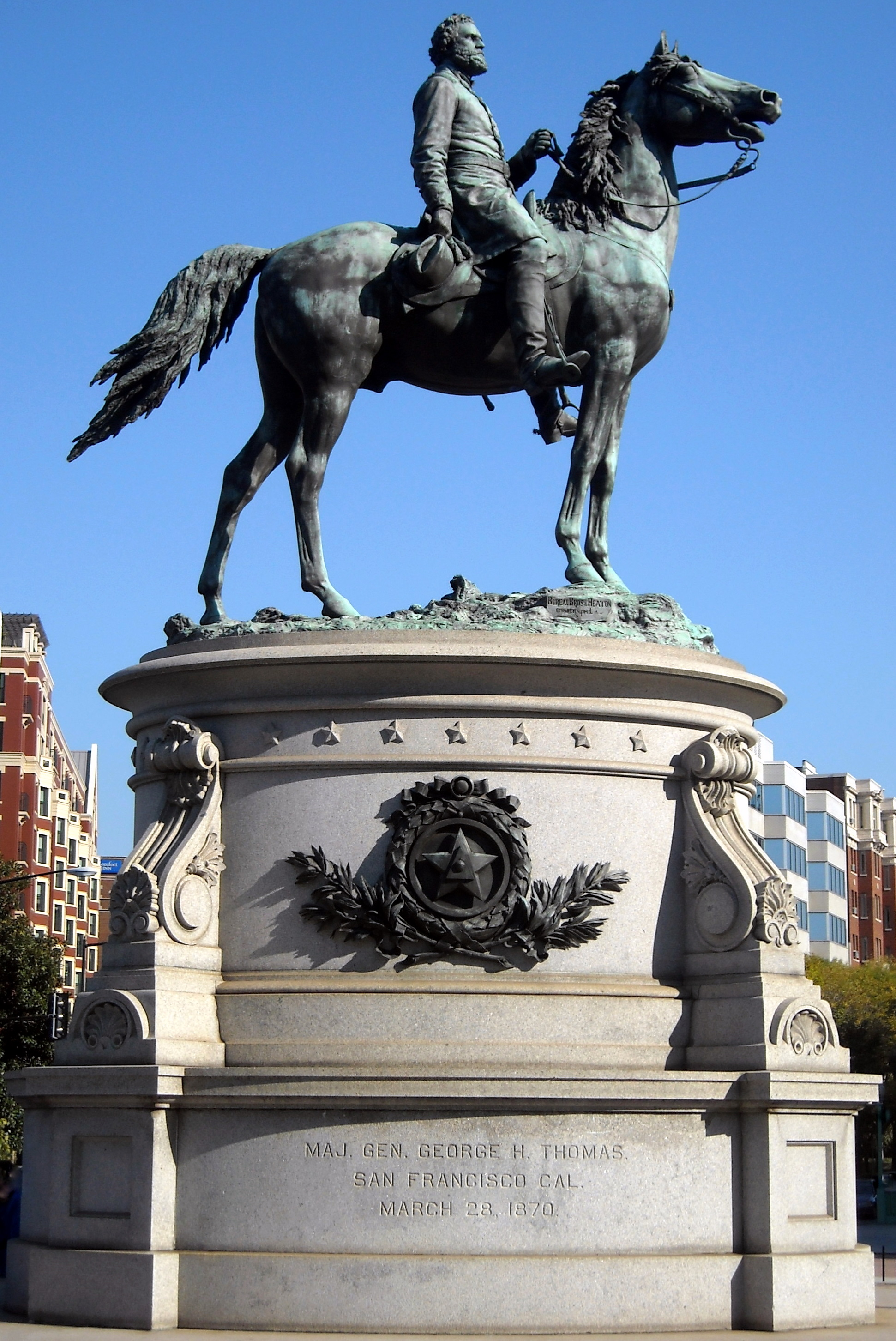 The statue of General George Henry Thomas, a prominent commander during the American Civil War, located in the center of Thomas Circle, a traffic circle in the Logan Circle neighborhood of Washington, D.C. It is a contributing property to the Fourteenth Street Historic District. The bronze equestrian statue was sculpted by John Quincy Adams Ward, and dedicated on November 19, 1879. It is one of seventeen Civil War monuments in Washington, D.C., that were collectively listed on the National Register of Historic Places on September 20, 1978. The statuary was also designated a D.C. Historic Landmark on March 3, 1979.